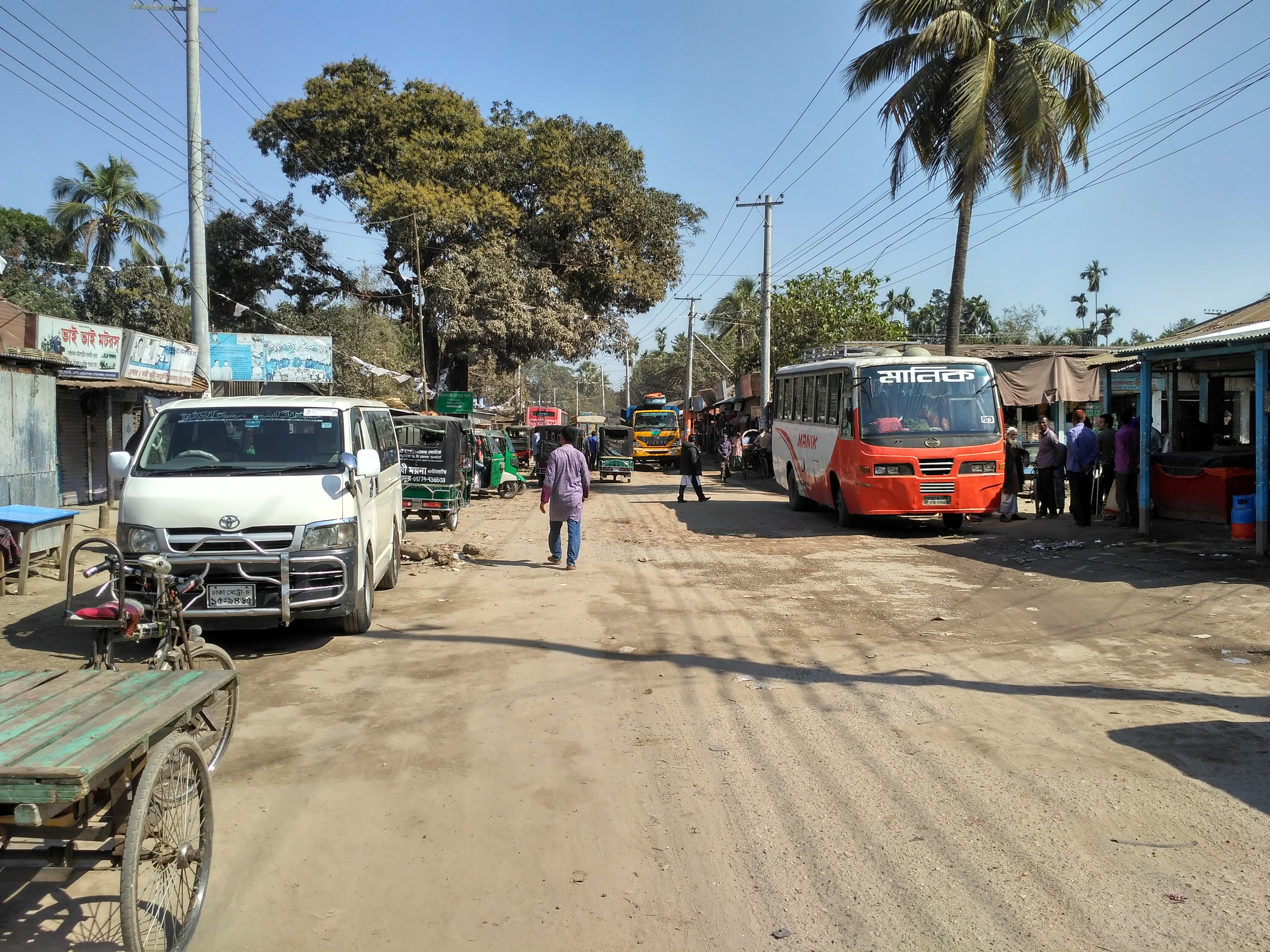 View of the road near Domar bus stand, DB Road, Domar, Nilphamari, Bangladesh. (01.03.2019)